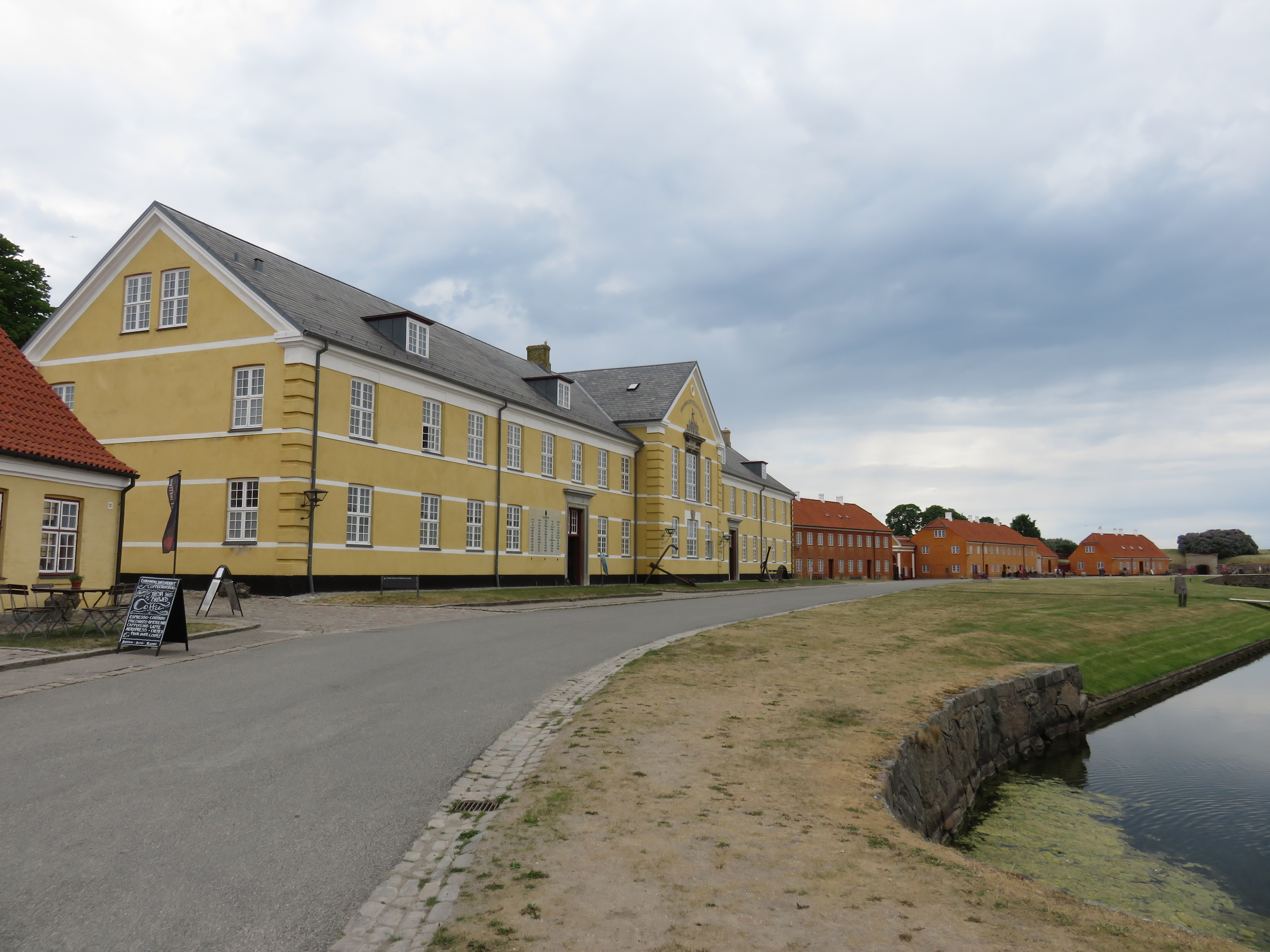 Barracks in Kronborg Castle in Helsingør, Denmark in 2018